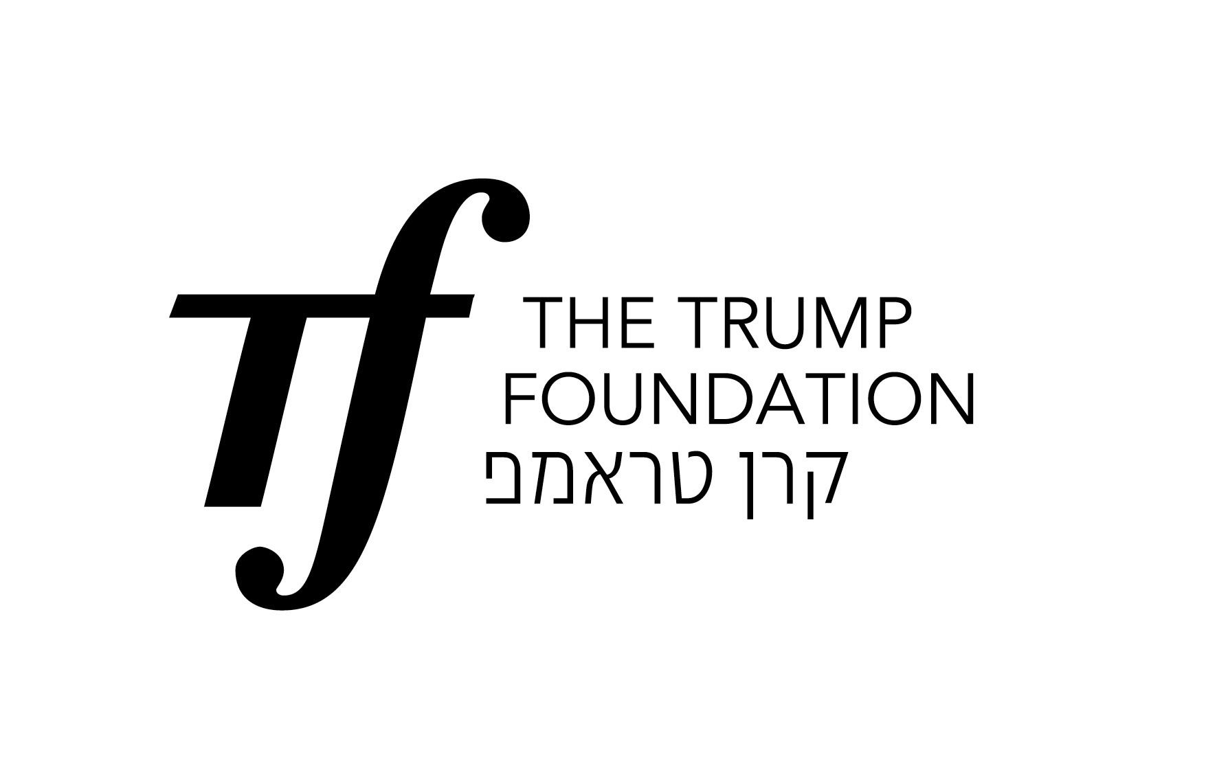 The Trump Foundation Logo